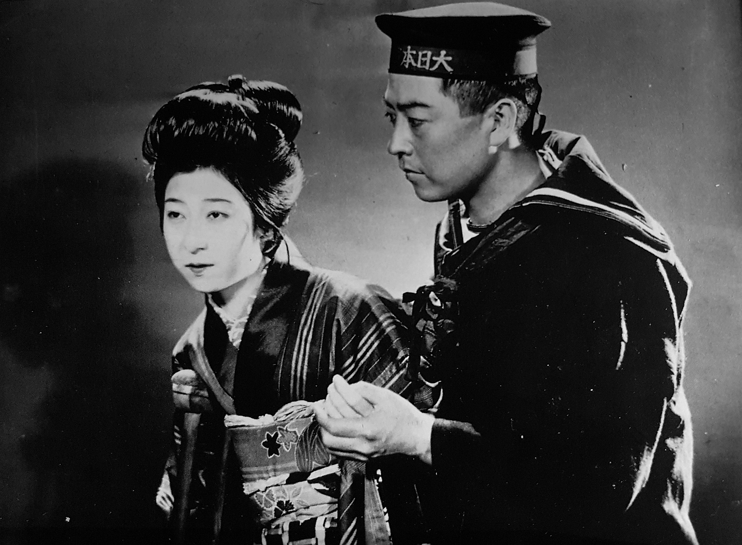 Emiko Yagumo and Ryūji Ishiyama in Mura no hanayome (村の花嫁) directed by Heinosuke Gosho - 1928